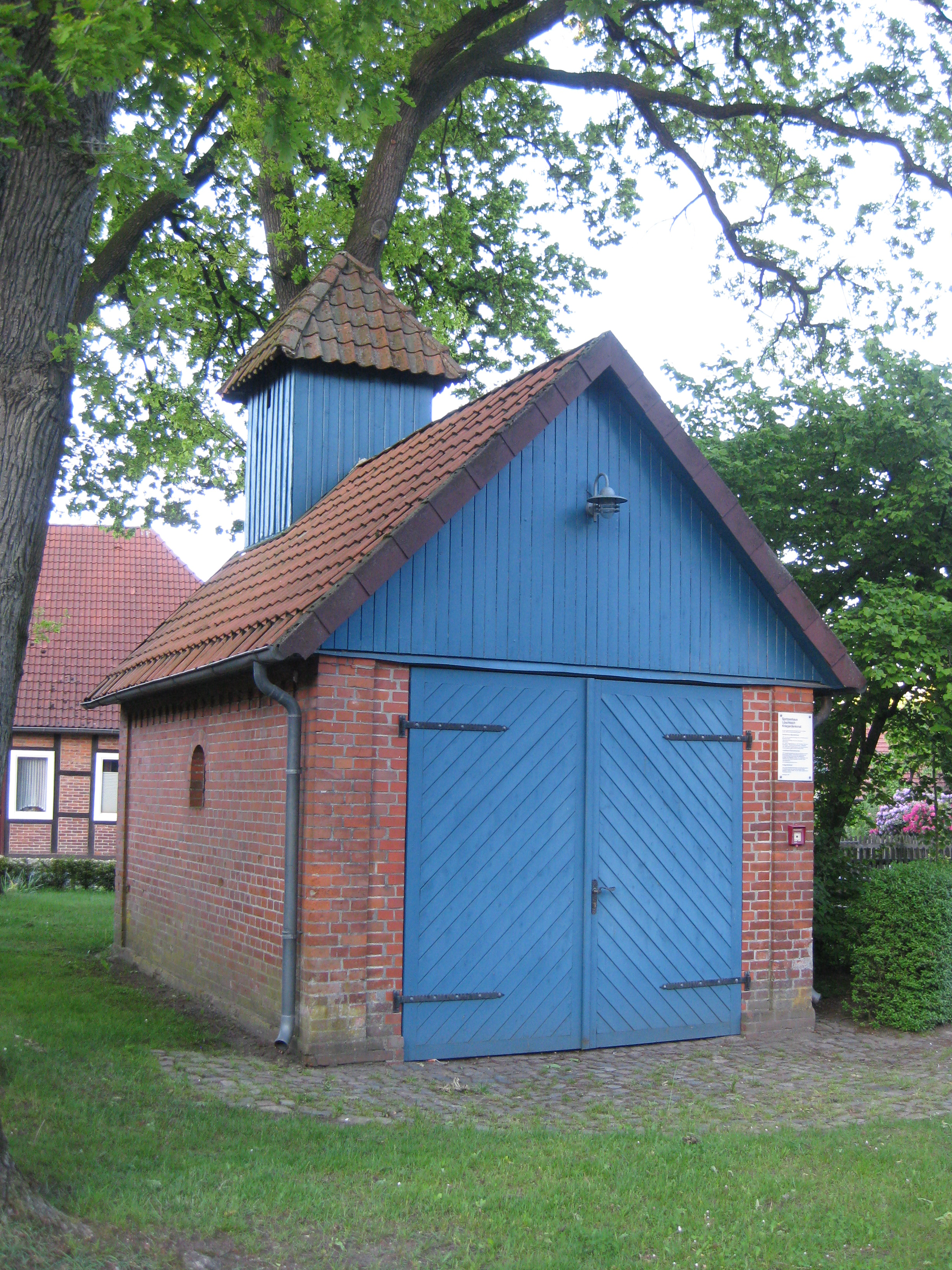 The old fire engine house in Becklingen; built 1907. Now used as a store. Lower Saxony, Germany.